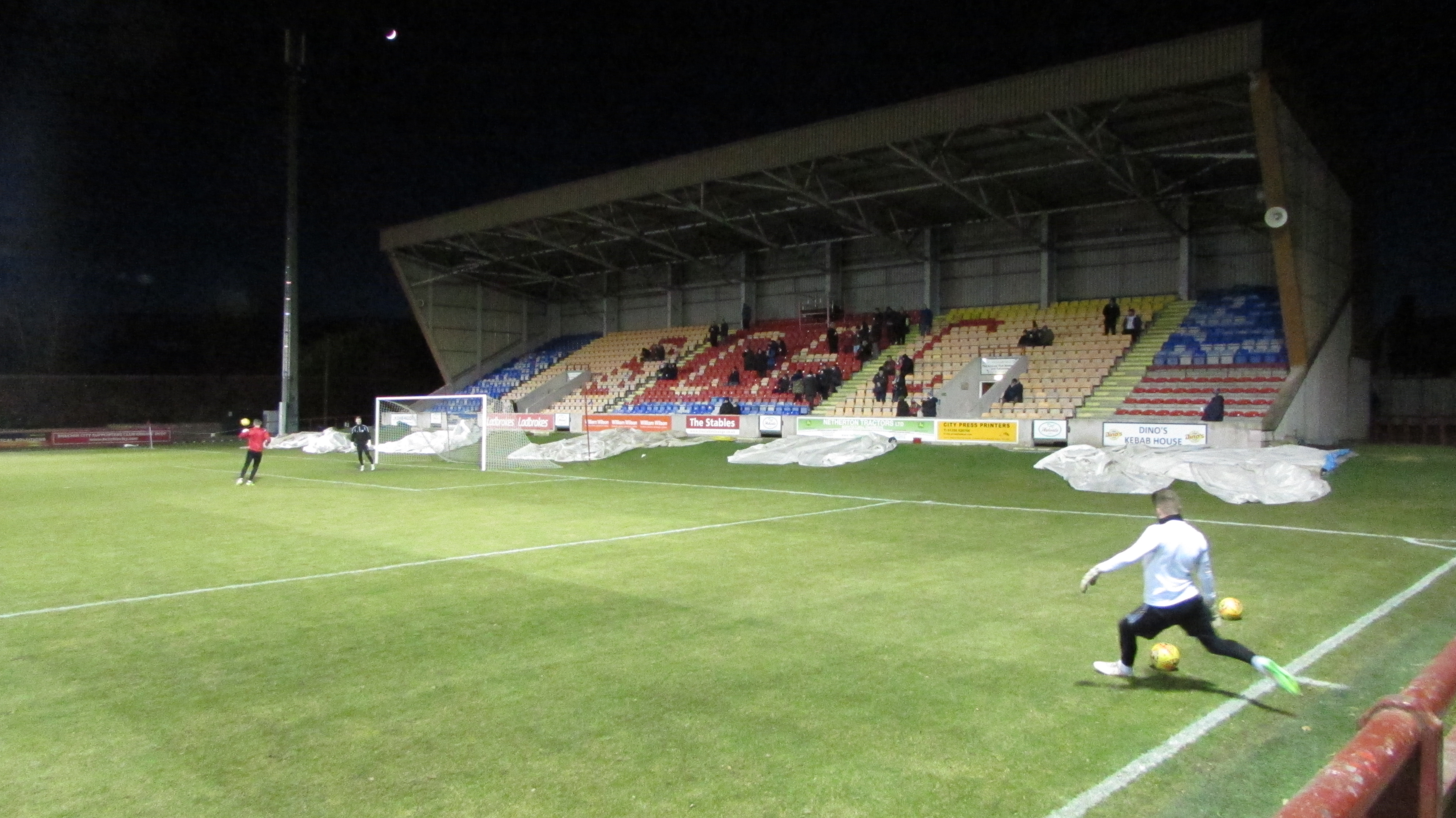 Glebe Park, Brechin - Pre-match vs Dunfermline Athletic (20/03/18)